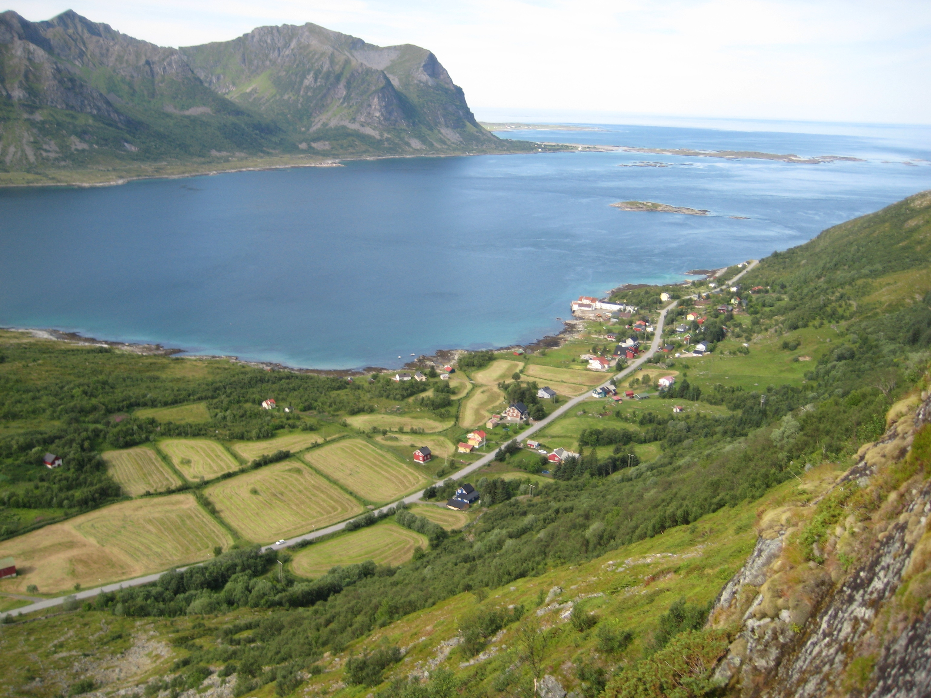 Gravermarka village at summer, taken from Gravermark mountains. Summer of 2009.